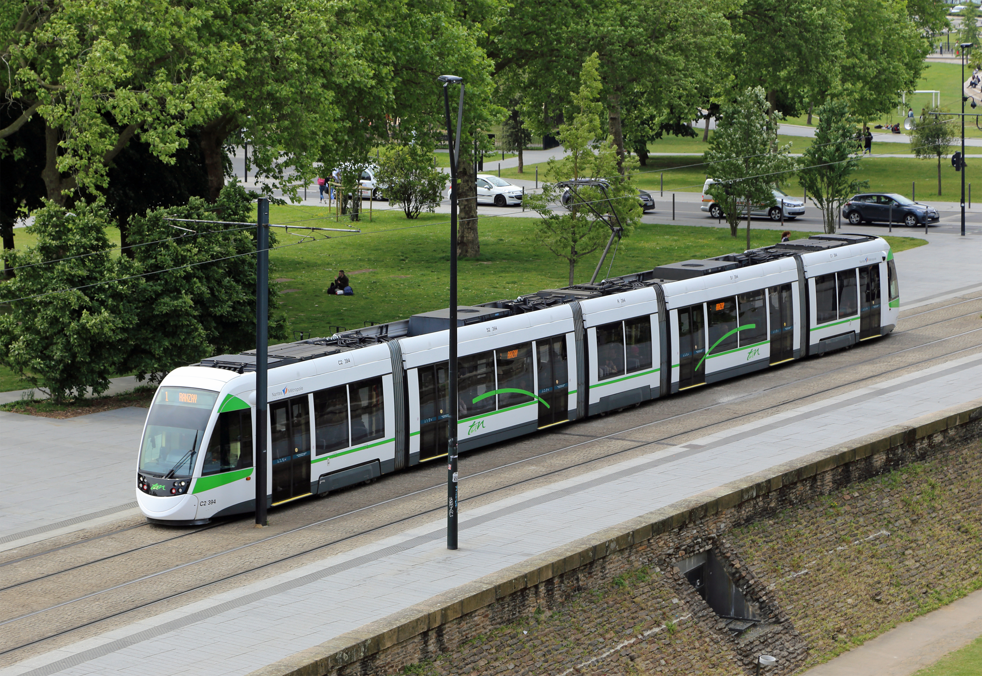 Nantes (Loire-Atlantique department, France): tramcar #394, type CAF Urbos 3